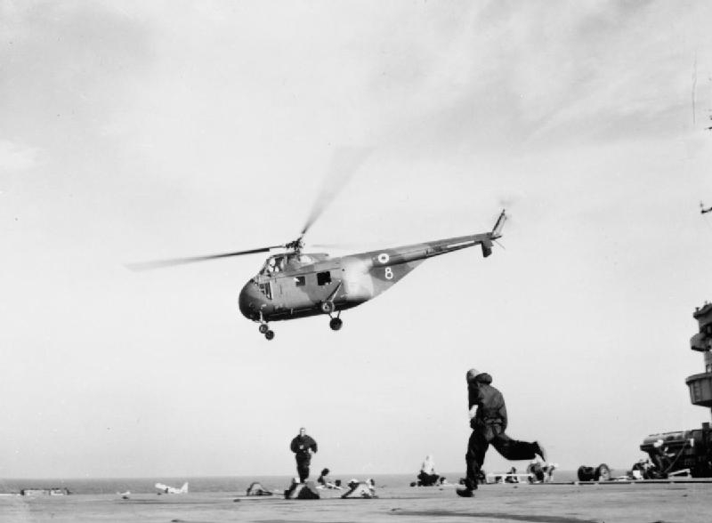 A Westland Whirlwind helicopter of the joint Royal Air Force/Army unit is leaving the Royal Navy commando carrier HMS Ocean (R68) with troops for Port Said during the Suez Crisis.